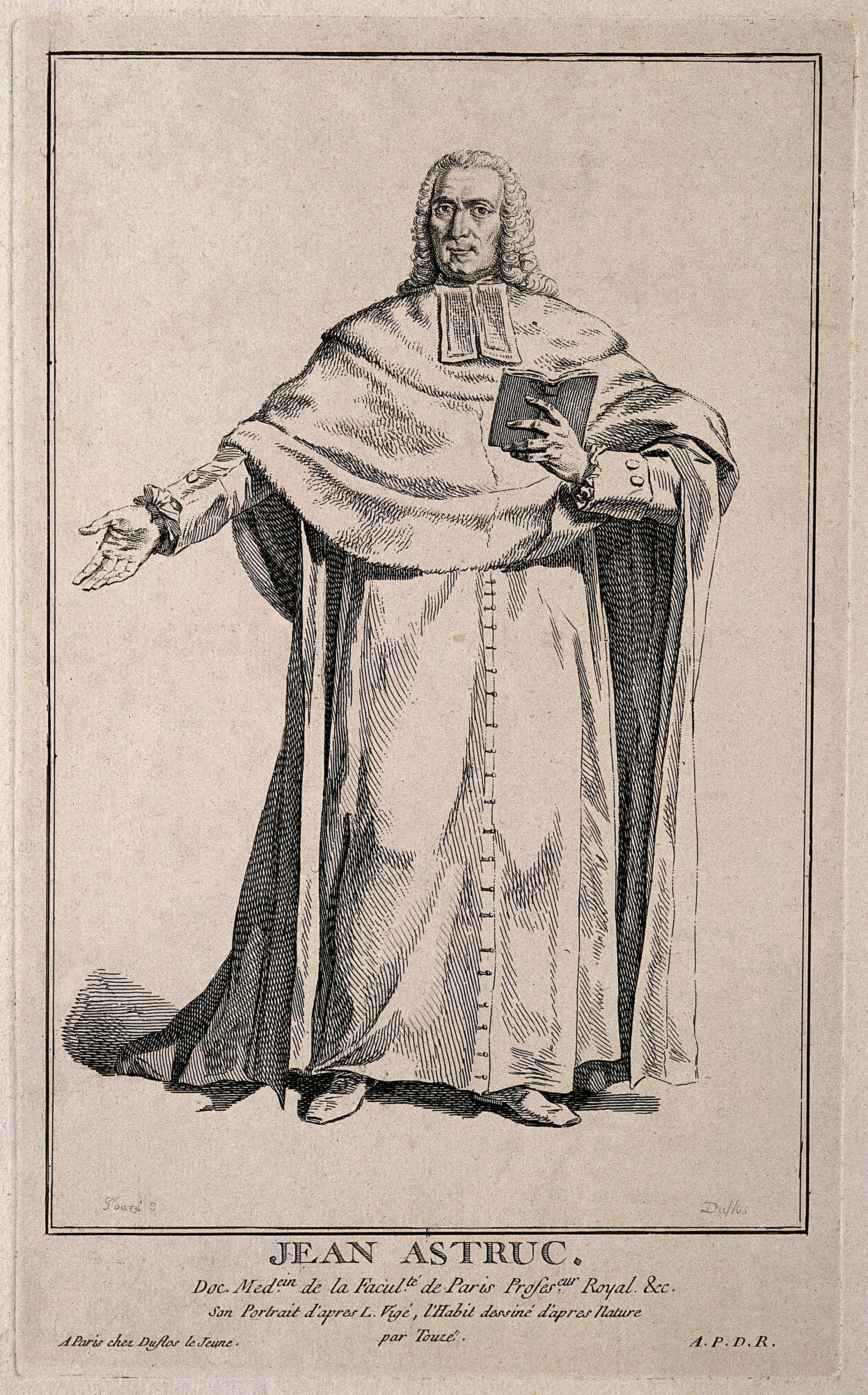 Jean Astruc. Line engraving by Duflos le jeune after L. Vigée and Touzé. Iconographic Collections Keywords: portrait prints; astruc, jean, 1684-1766; engravings; Jean Astruc